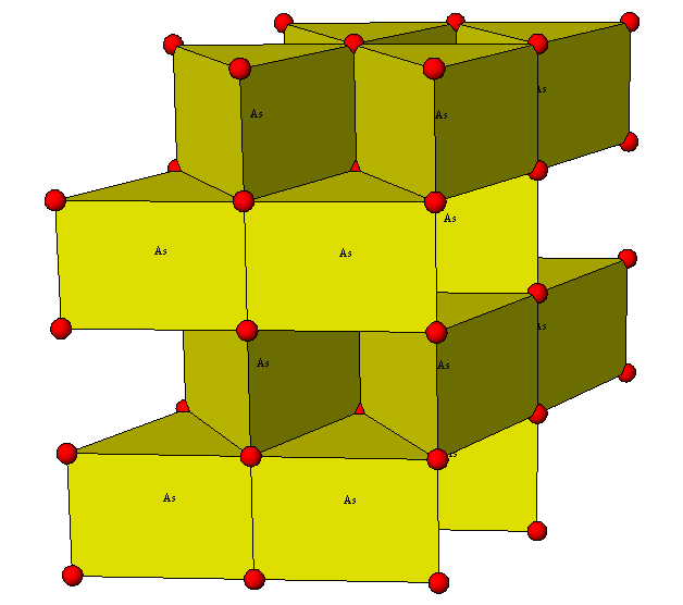 Structure of the nickeline described as NiAs6 octahedra